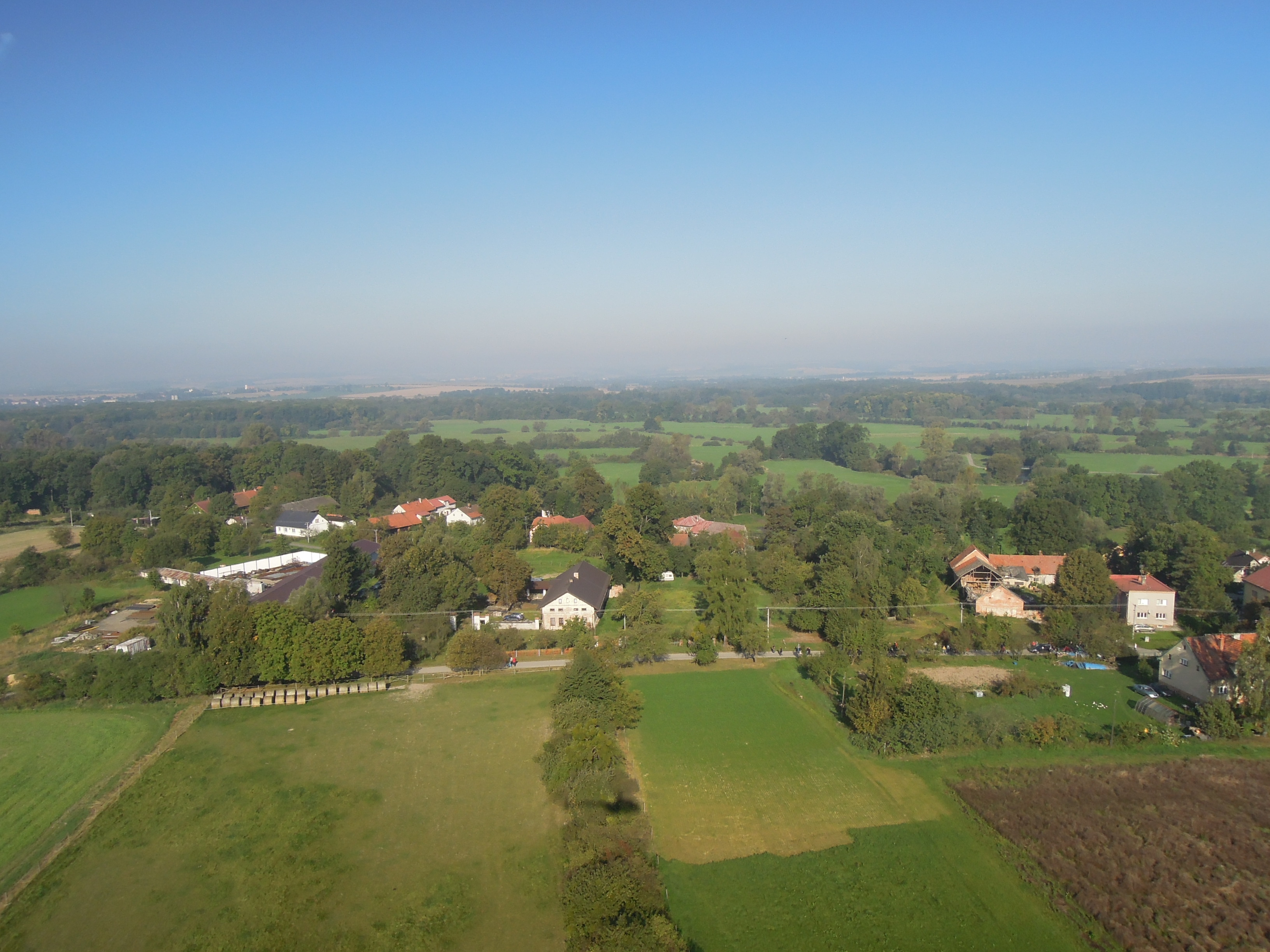 View of Petřvaldík and CHKO Poodří, Moravian–Silesian Region, Czech Republic; photo was taken from Robinson R44 helicopter